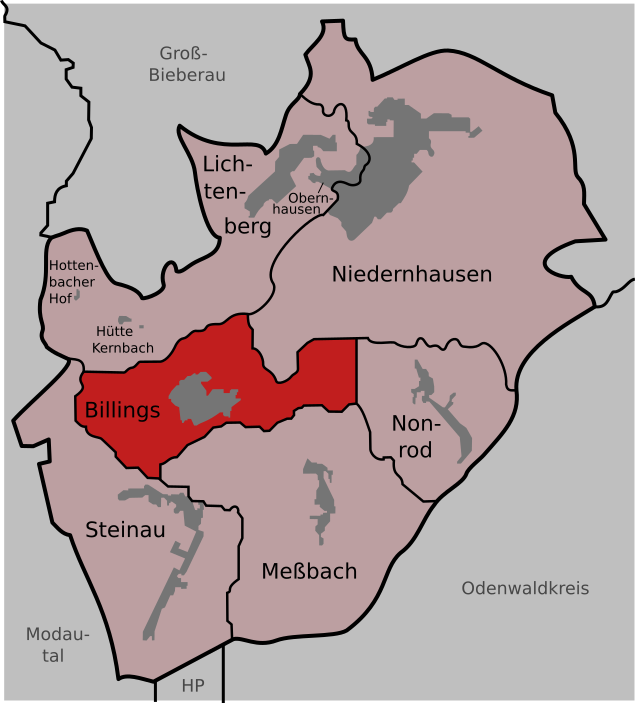 Map of he parish Fischbachtal (Hesse, Germany) with the district Billings highlighted.